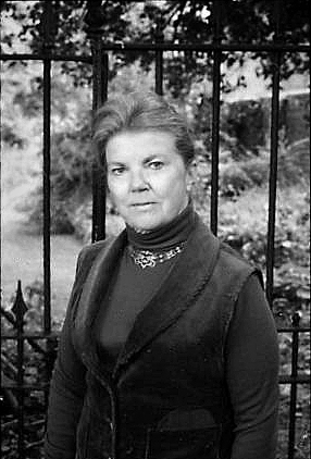 Portrait of the author Joan Aiken